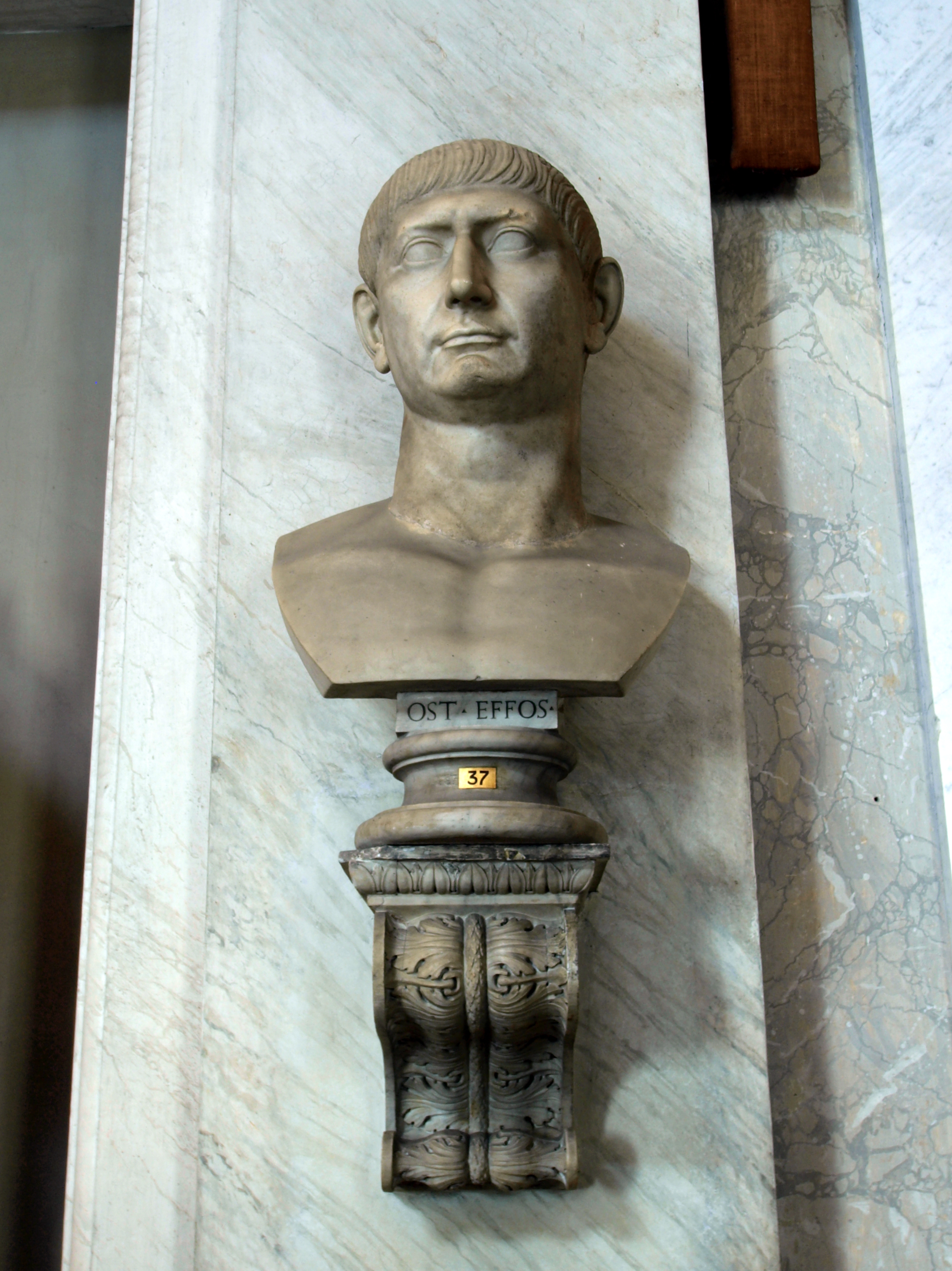 Sculpture no37 in the Vatican museum.